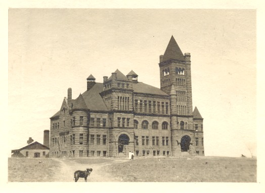 Westminster University; Pillar of Fire Church; Belleview College was listed on the National Register of Historic Places in 1979. The Richardson Romanesque building of Westminster University is located at 84th Avenue between Lowell Boulevard and Federal Boulevard. When it was completed in 1908, the area was known as Crown Point. The building was considered the most beautiful architectural design of the time. In the first year, 60 students attended classes. Financial difficulties, only a few years later, caused the college to close. The building was vacant for several years. The Pillar of Fire church purchased the University buildings and 40 acres in January 1920. Source [1] Most likely published in 1908 and public domain.